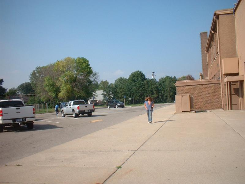 aaw school bldg & parking lot